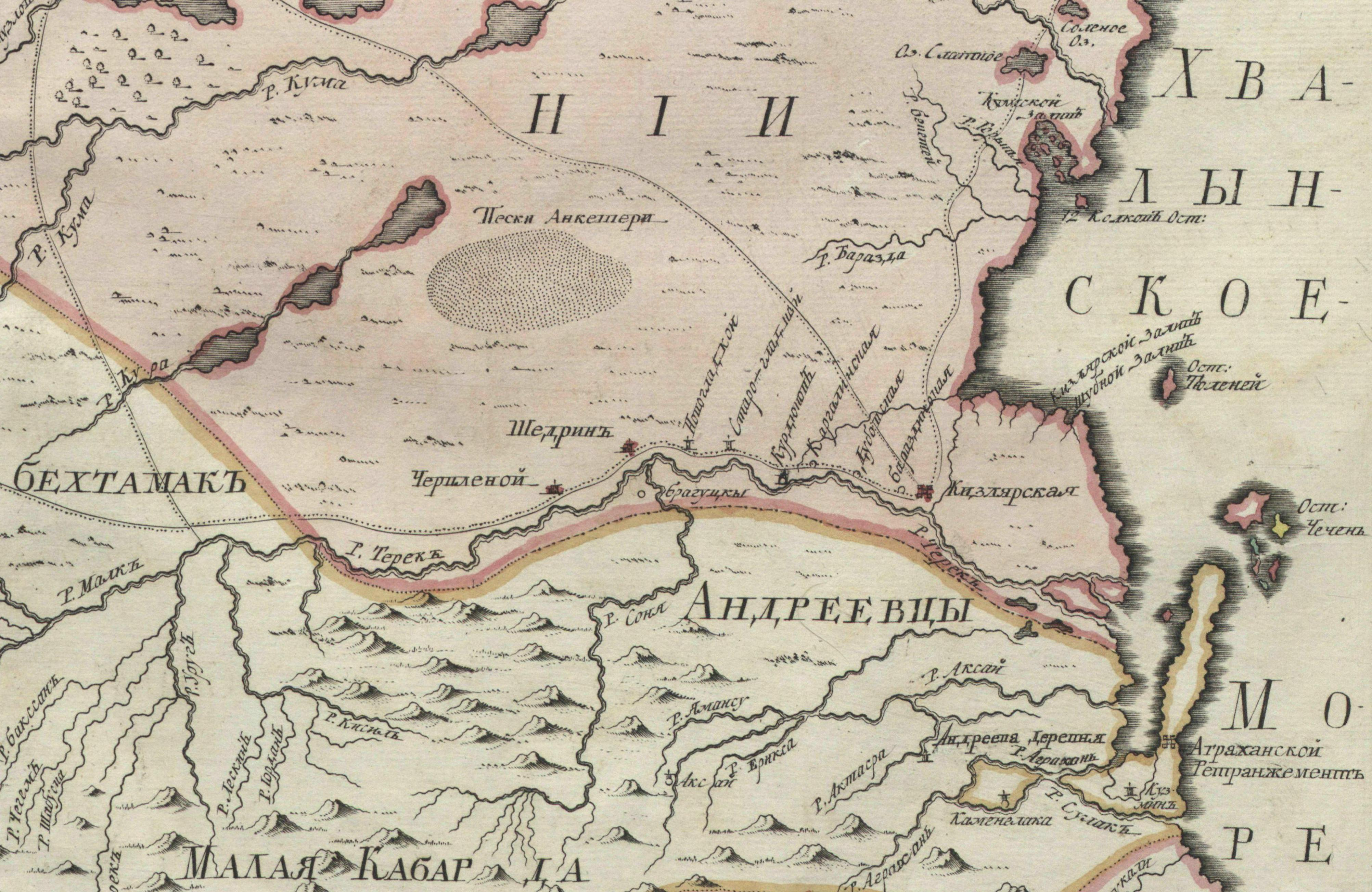 First official geographic atlas of the Russian Empire (1745). Map of places beetwen Black Sea and Caspian Sea, include Kuban, Georgia and mouth of Volga river.